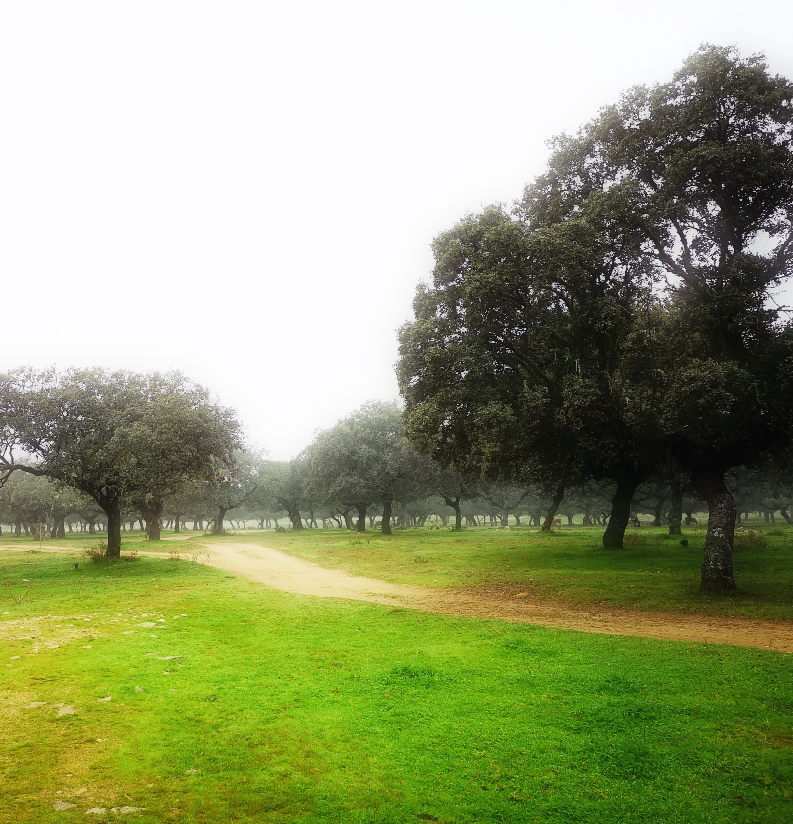 Ghjkk